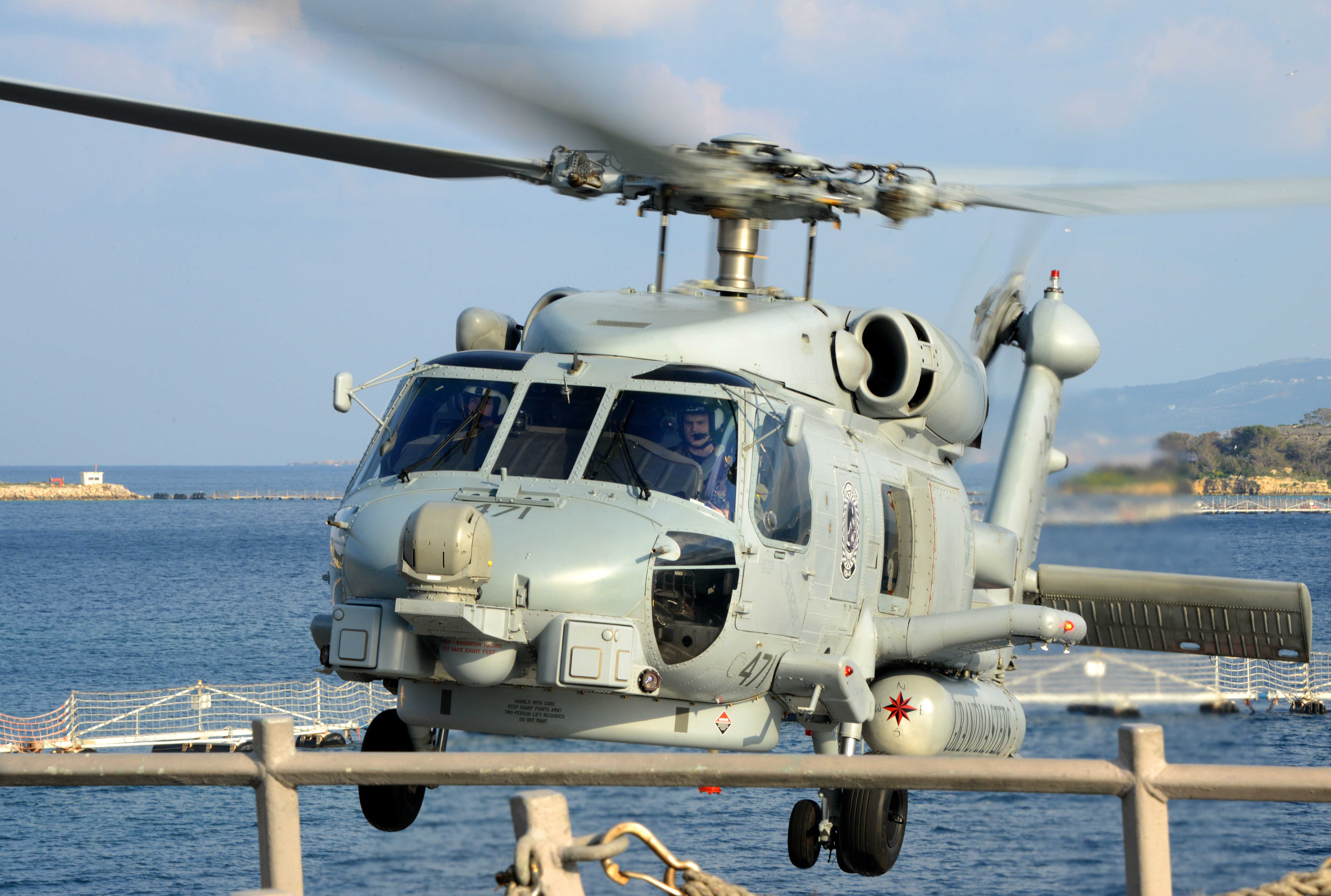 An SH-60R Seahawk from the Oliver Hazard Perry-class frigate USS Taylor (FFG 50) lifts off during pierside flight operations at Marathi NATO pier facility. Taylor is on a scheduled deployment supporting maritime security operations and theater security cooperation efforts in the U.S. 6th Fleet area of responsibility. (U.S. Navy photo by Mass Communication Specialist 2nd Class Jeffrey M. Richardson/Released) Unit: Navy Media Content Services DVIDS Tags: Souda Bay; U.S. Navy; USS Taylor; aviation news; SH-60R